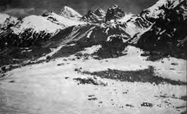 Камет